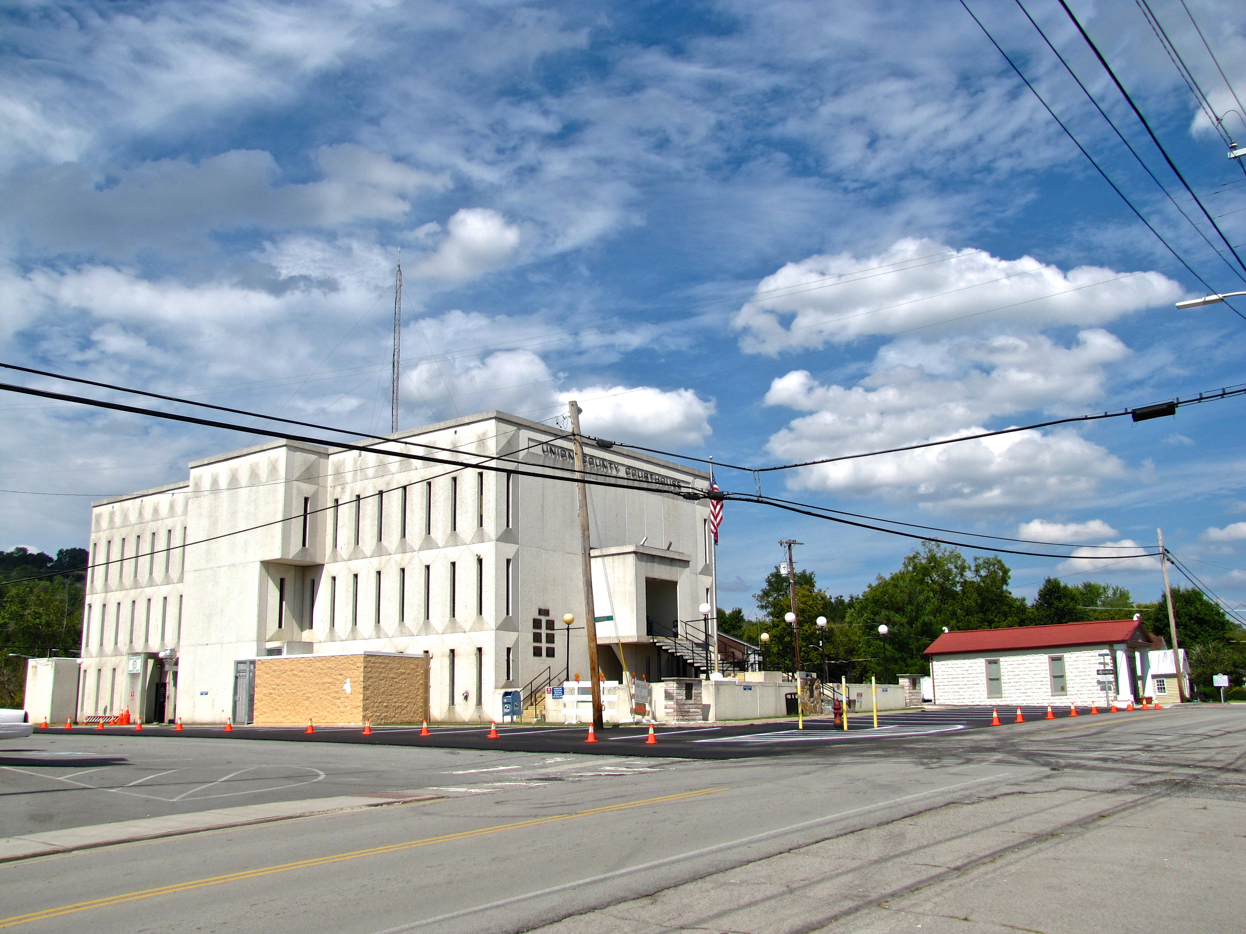 The Union County Courthouse and old Maynardville State Bank building in Maynardville, Tennessee, United States.